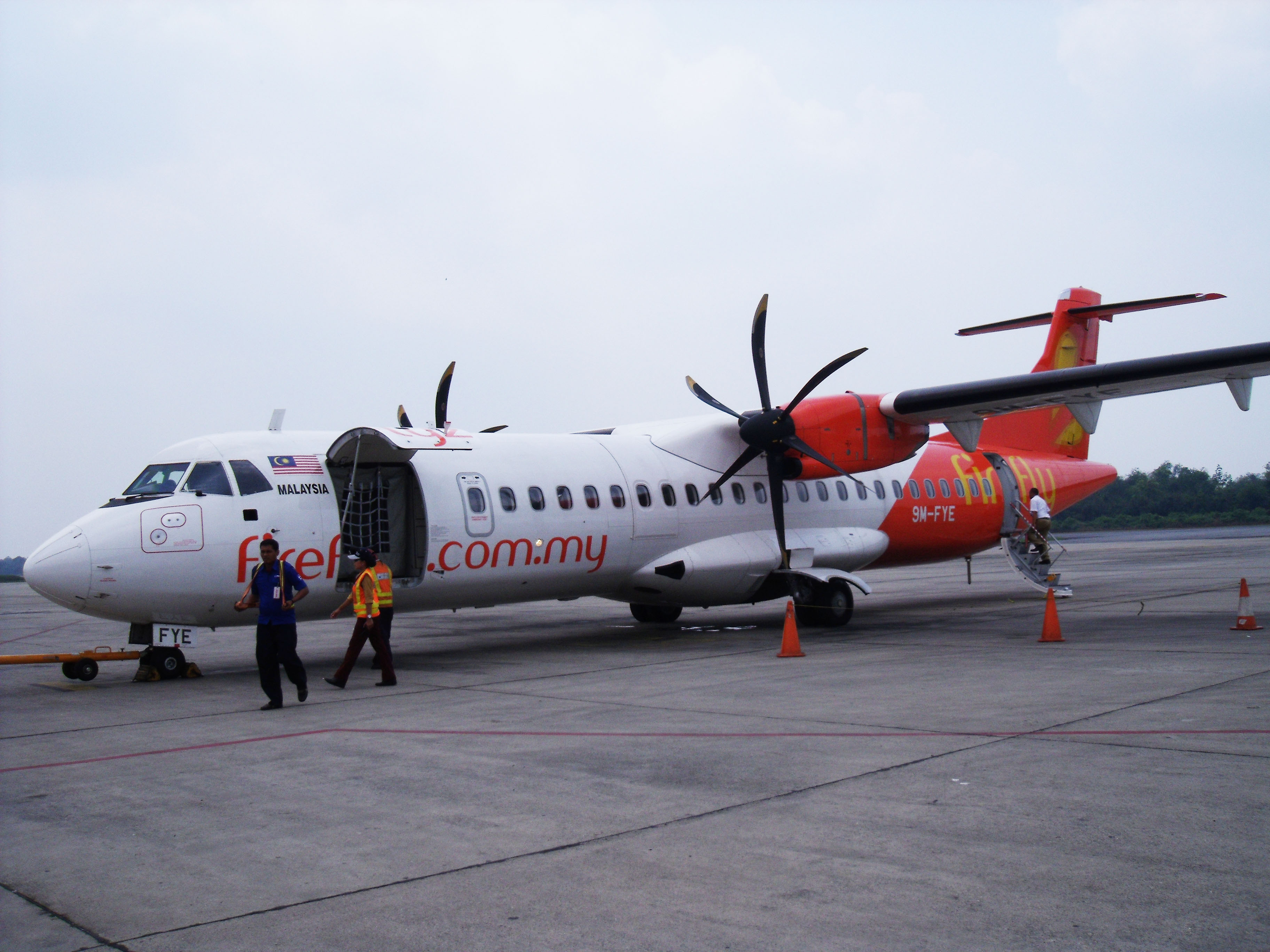 Firefly ATR72-500 at Riau Airport getting ready to fly to Subang Airport, Malaysia.